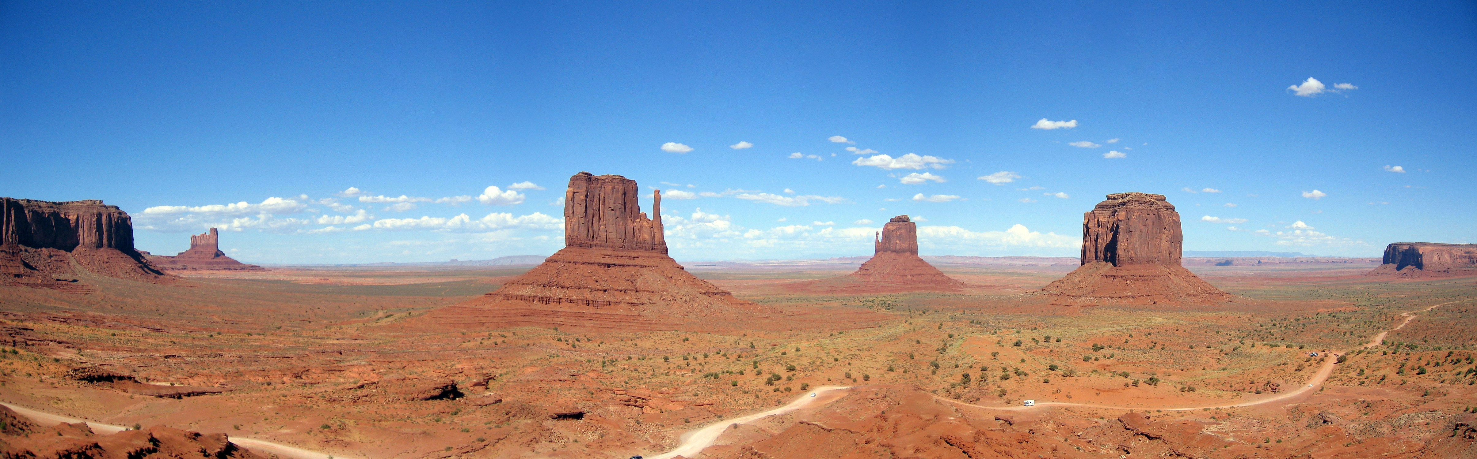 view of the Monument Valley, Between Arizona and Utah.